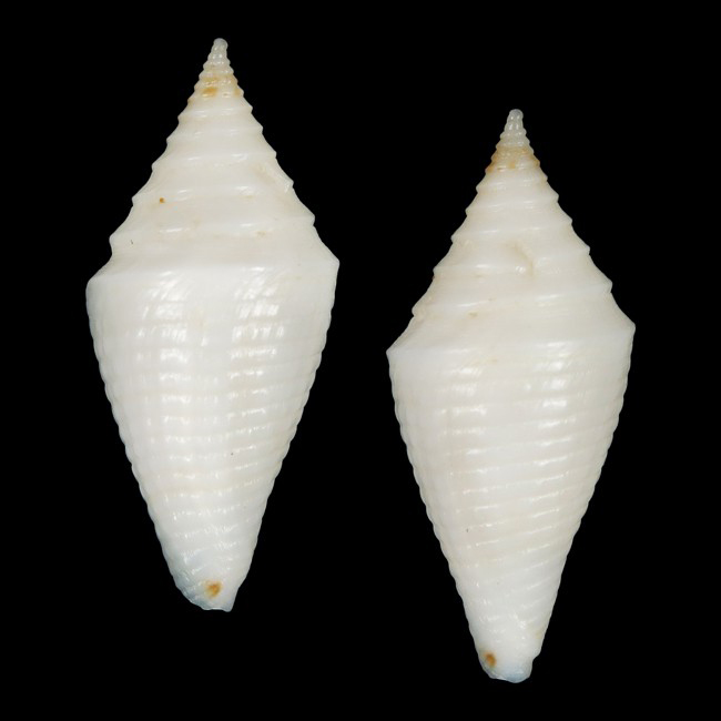 Seashell Conus beatrix